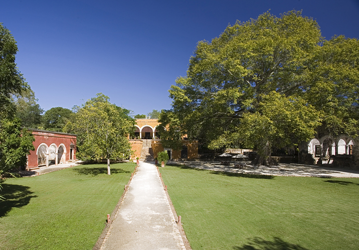 Exterior of the Hacienda Uayamon